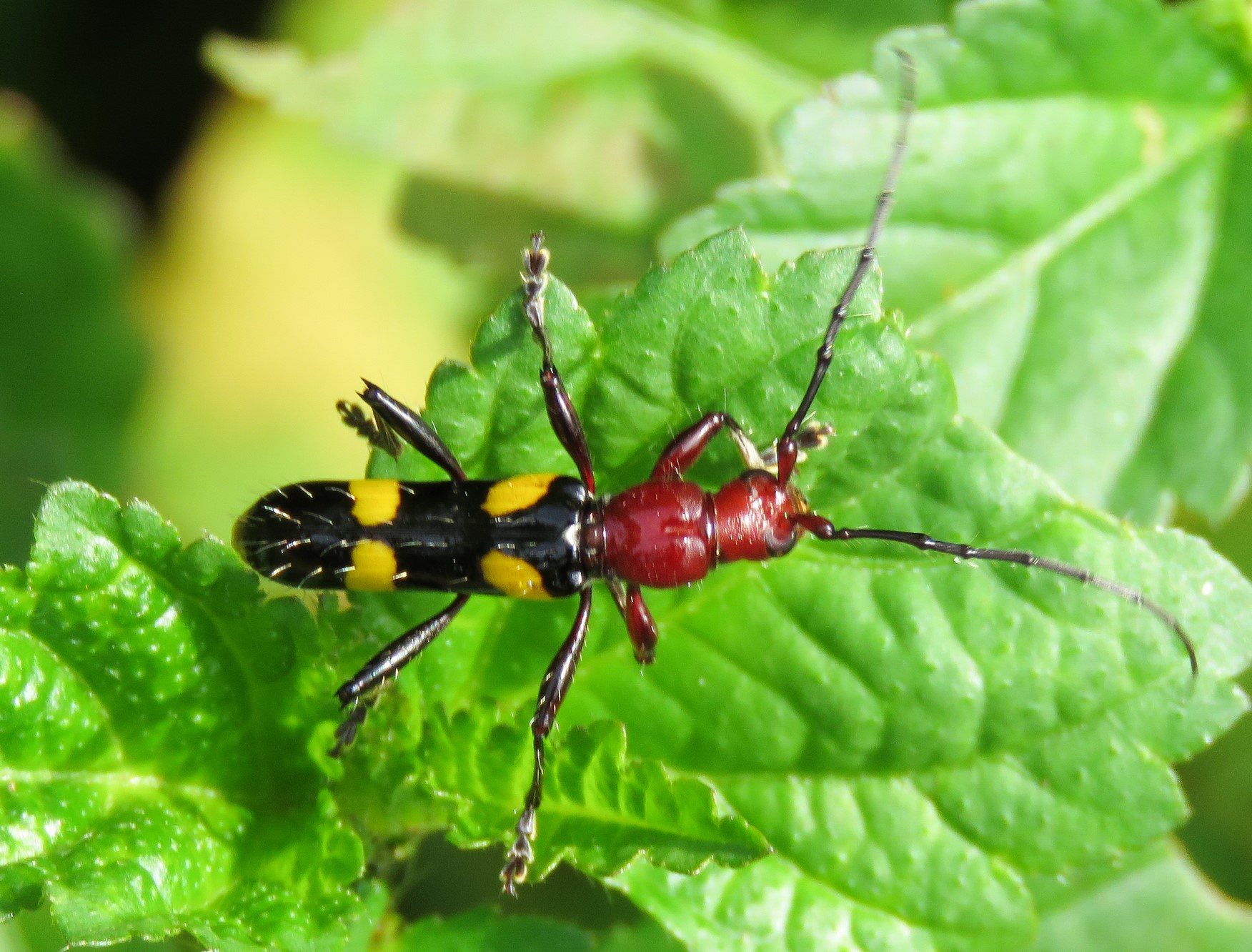 Stenygra conspicua. Species of insect.